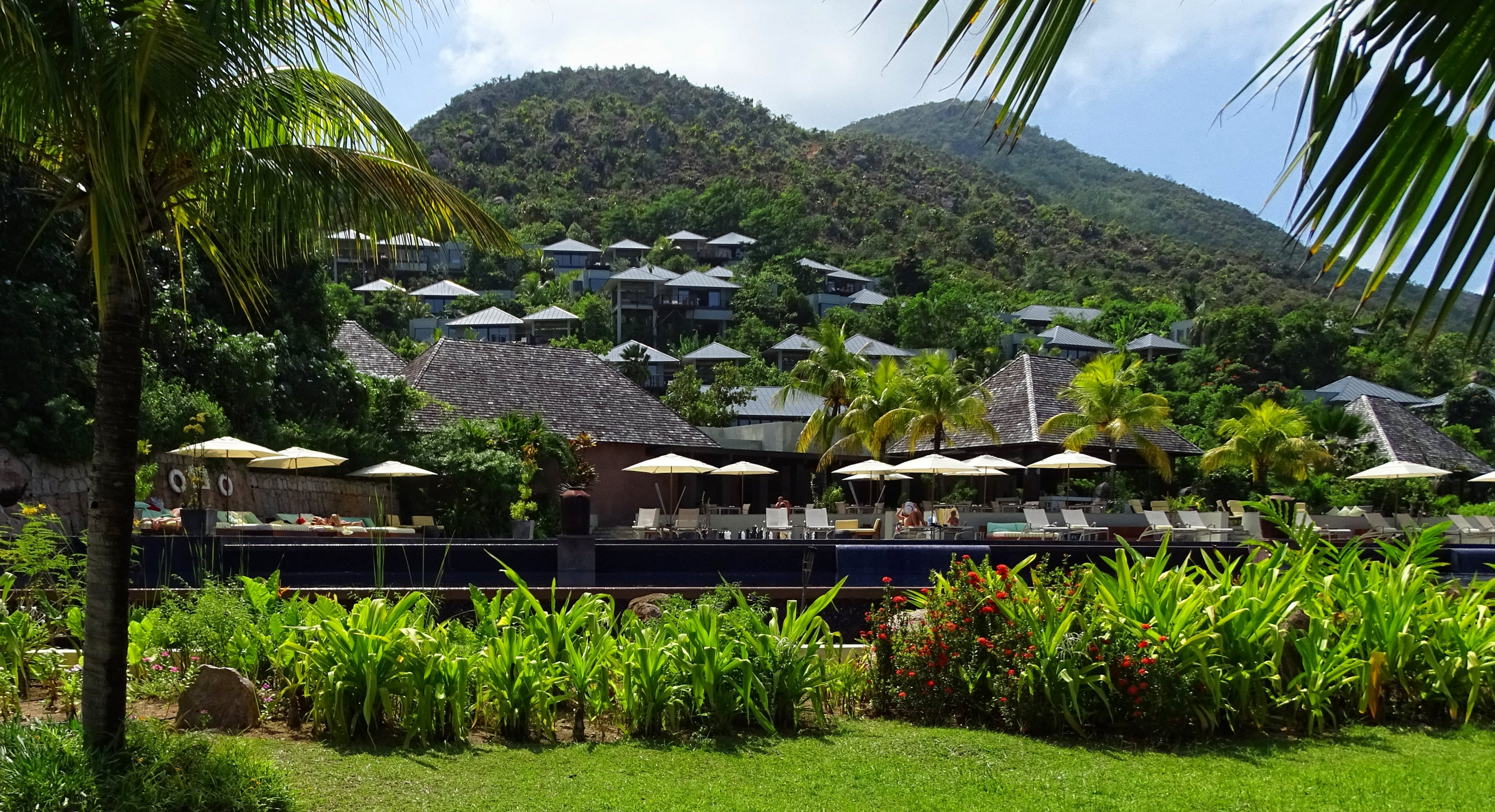 A view from below the main pool at Raffles Praslin up towards the hill where the rooms/villas are situated.